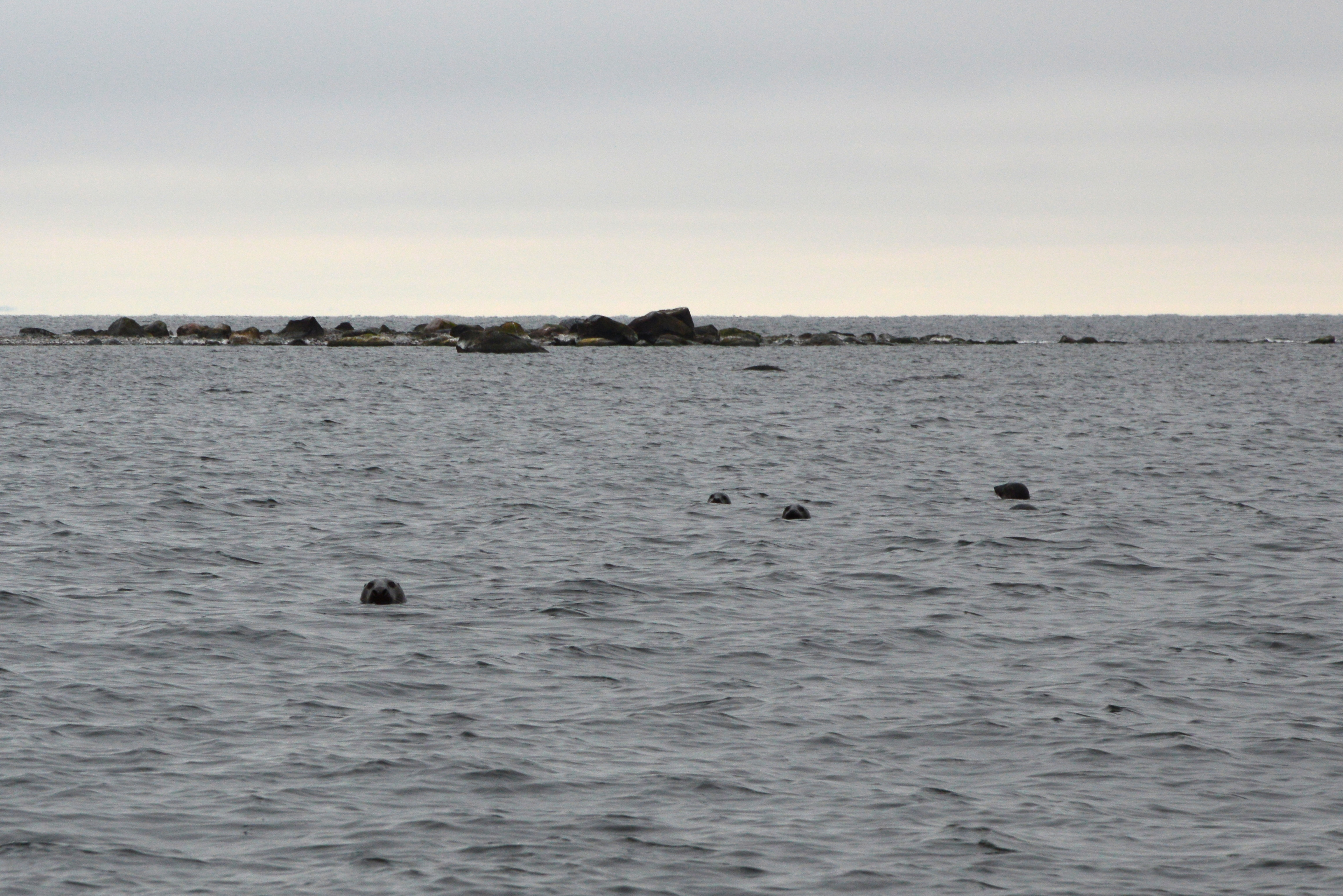 Halichoerus grypus next to Malusi islands, Estonia.